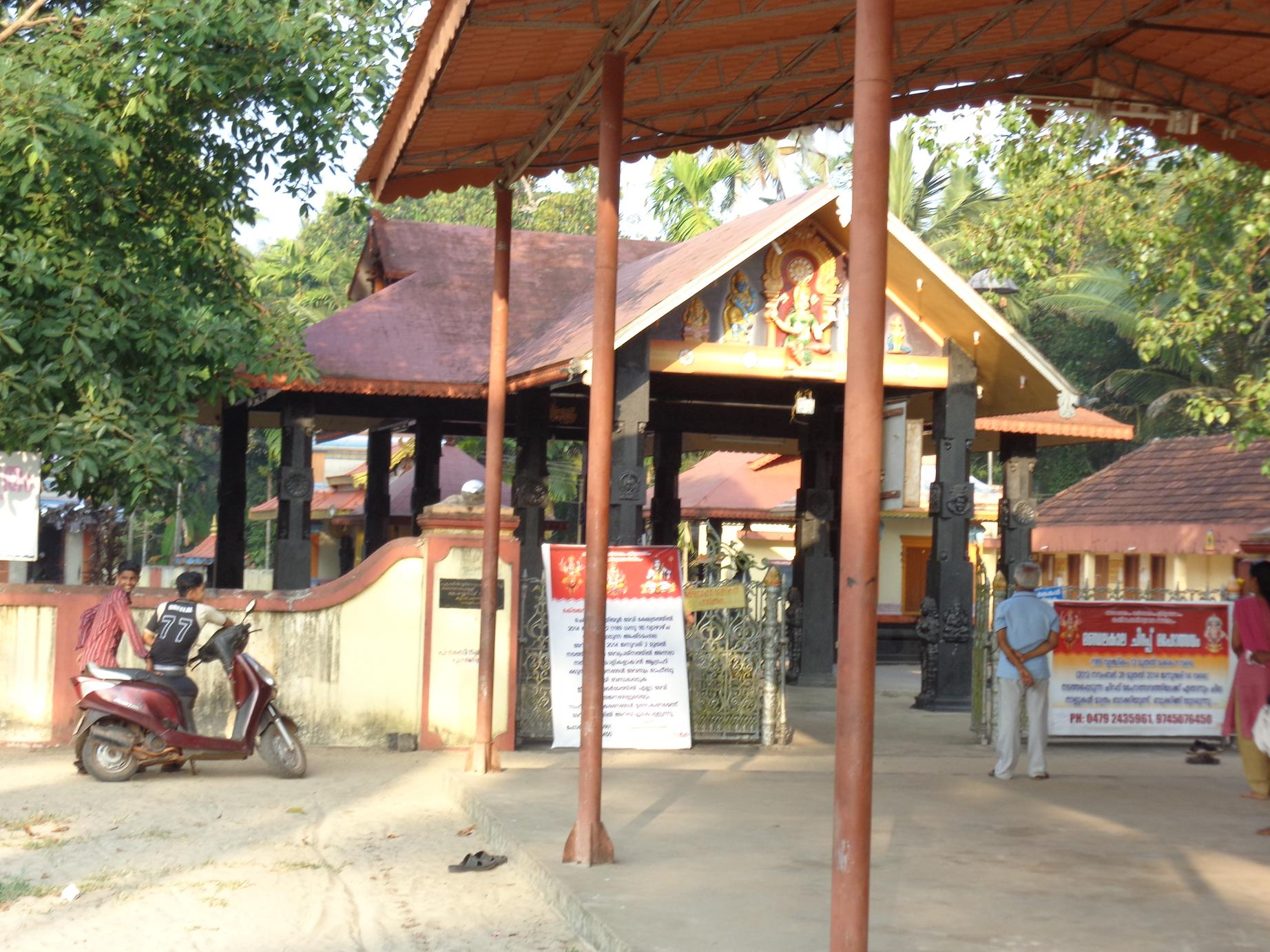 cheriyapathiyoor temple, mavelikara kerala india